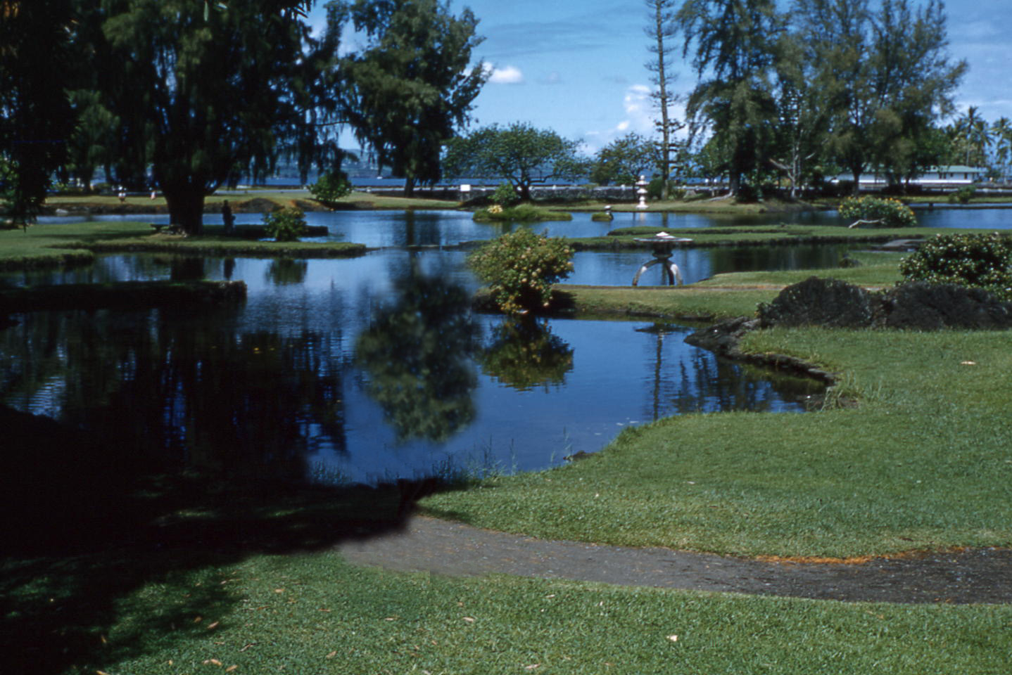 Landscaping and lake, Hilo, Hawaii